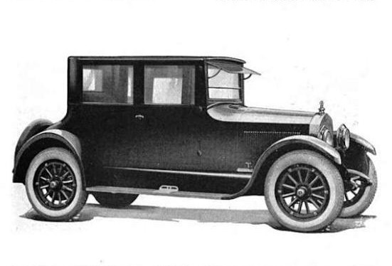 Handley-Knight Model B 4-passenger "Coupe-Sedan". Illustration from 1922 data sheet